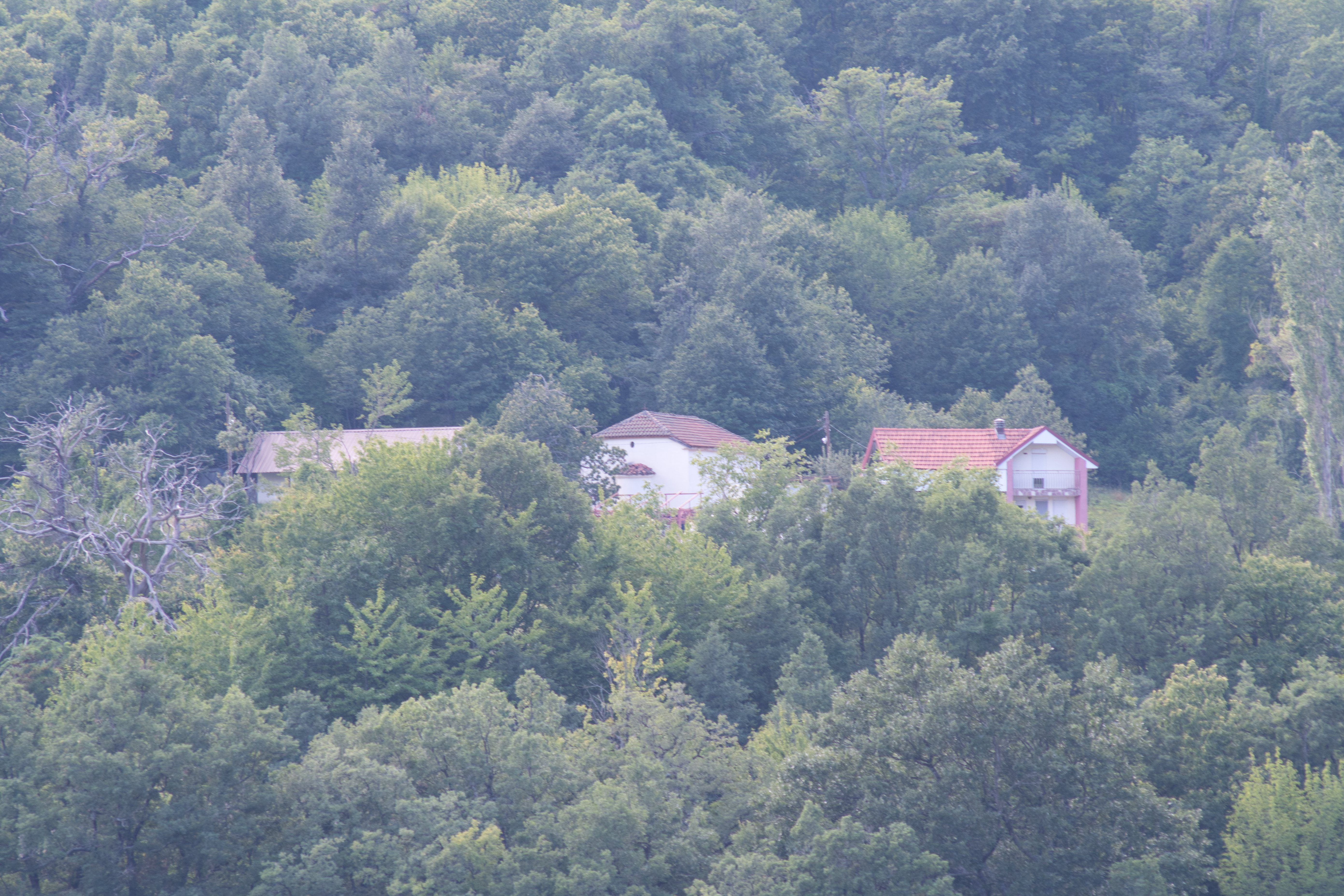 St. Athanasius Church in the village of Modrič